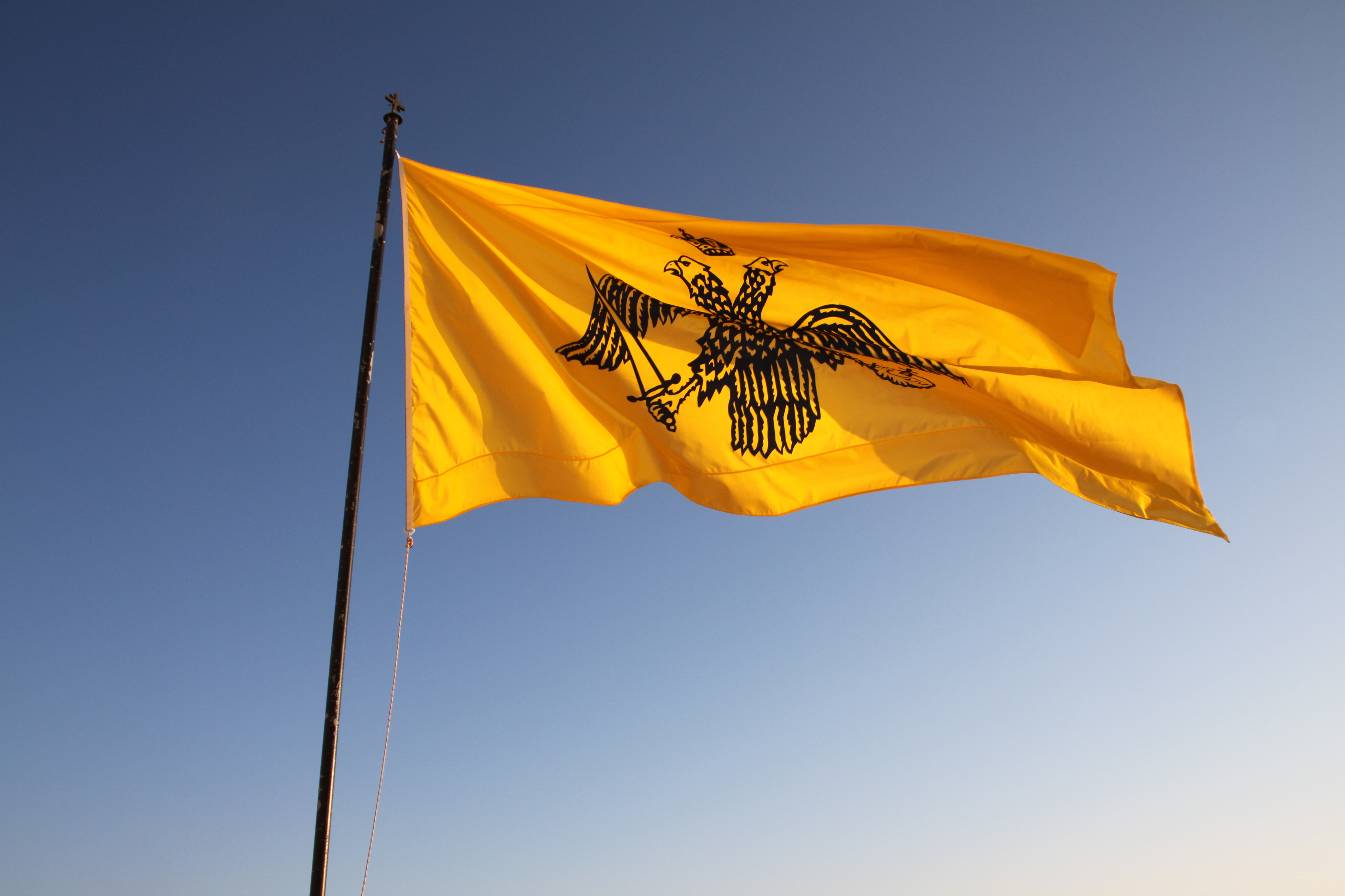 Flag of the Palaiologos Byzantine dynasty at the Holy Orthodox Monastery of Prophet Elias in Santorini during the eve of the feast day of Prophet Elias.